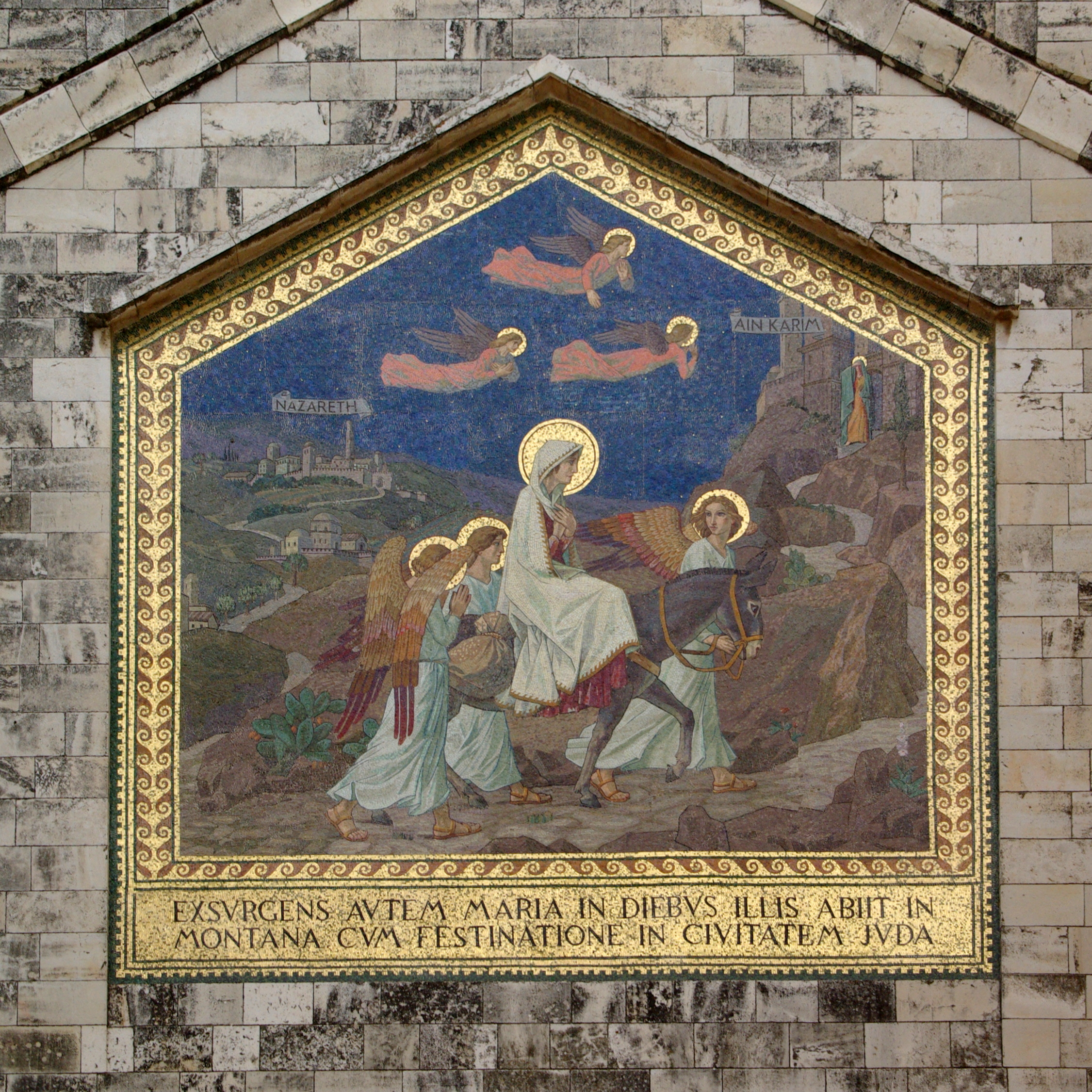 Ein, Kerem, Israel; mosaic at the Church of the Visitation. The text is from Luke 1,39